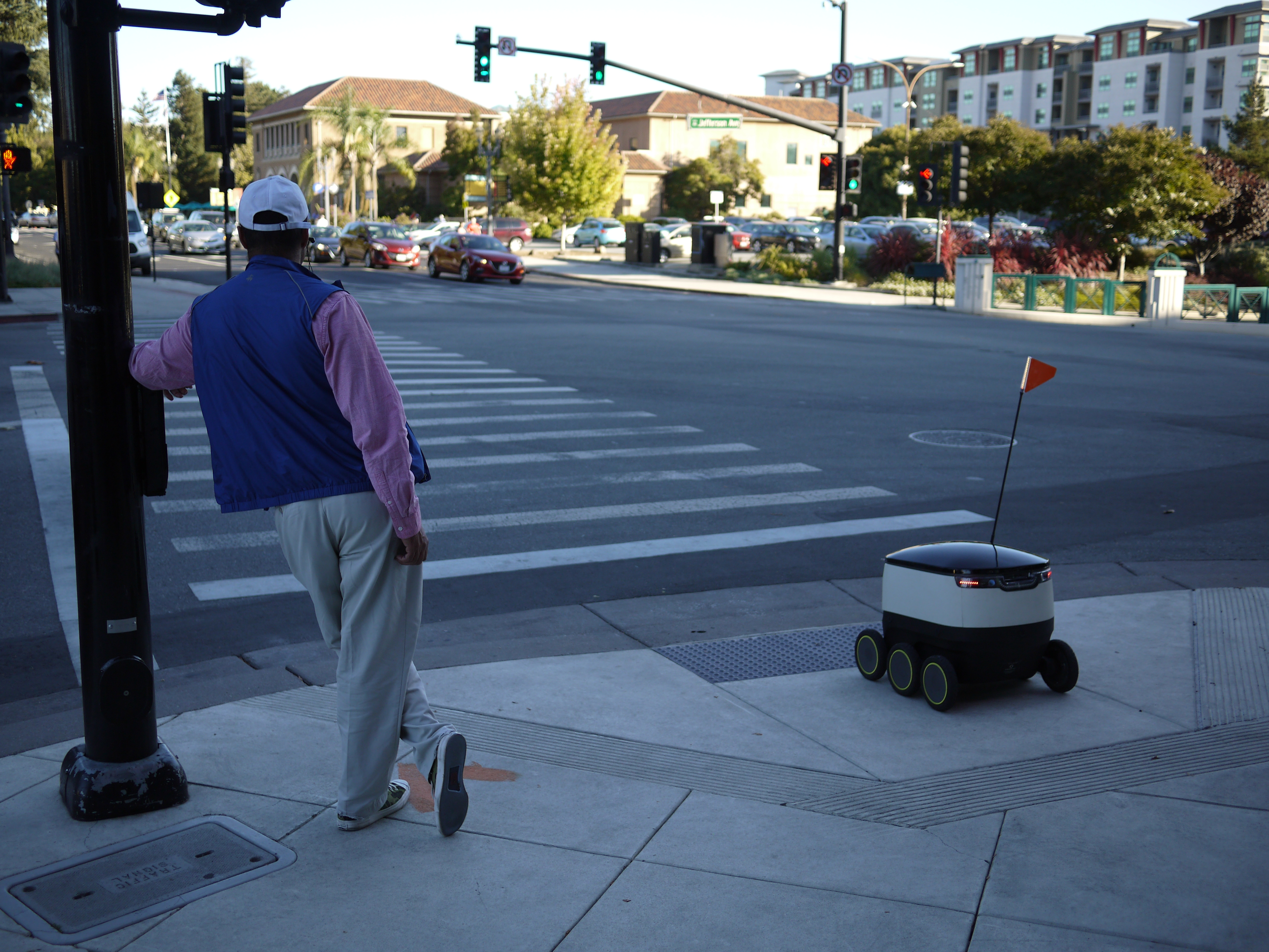 Man and delivery robot waiting at pedestrian crosing in Redwood City, California